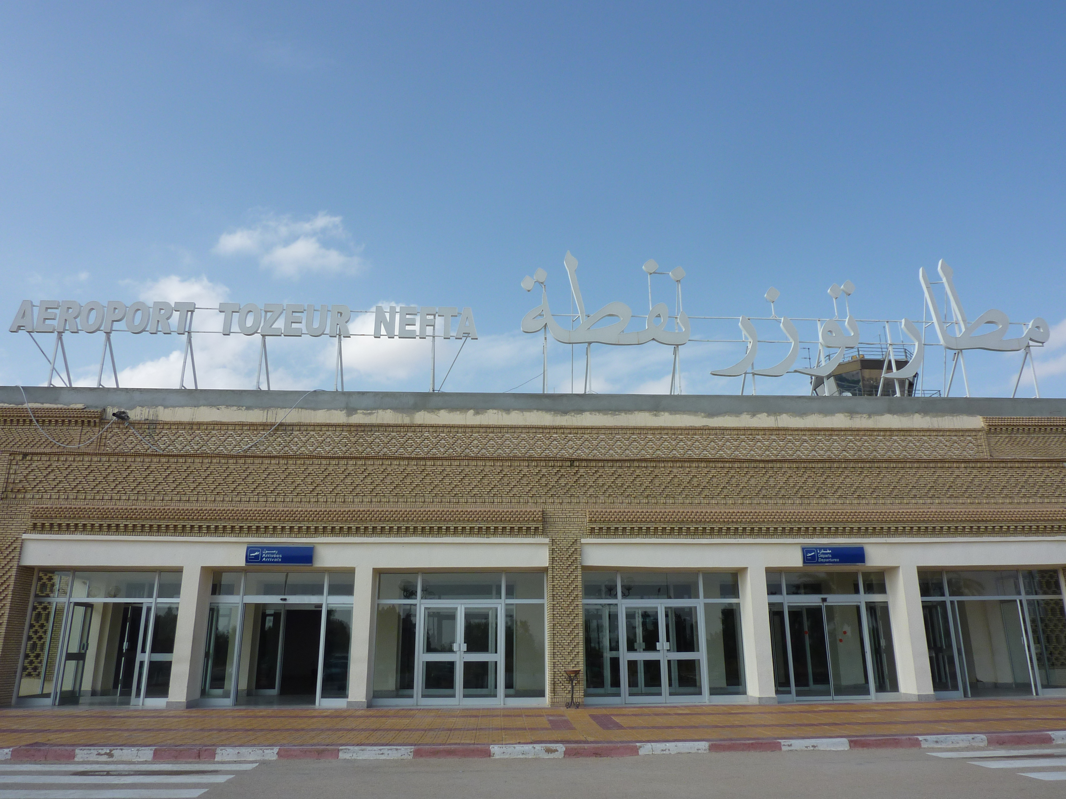 Entrance of the airport in Tozeur